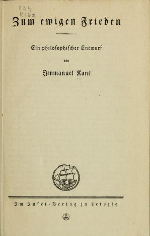 Cover of Perpetual Peace: A Philosophical Sketch